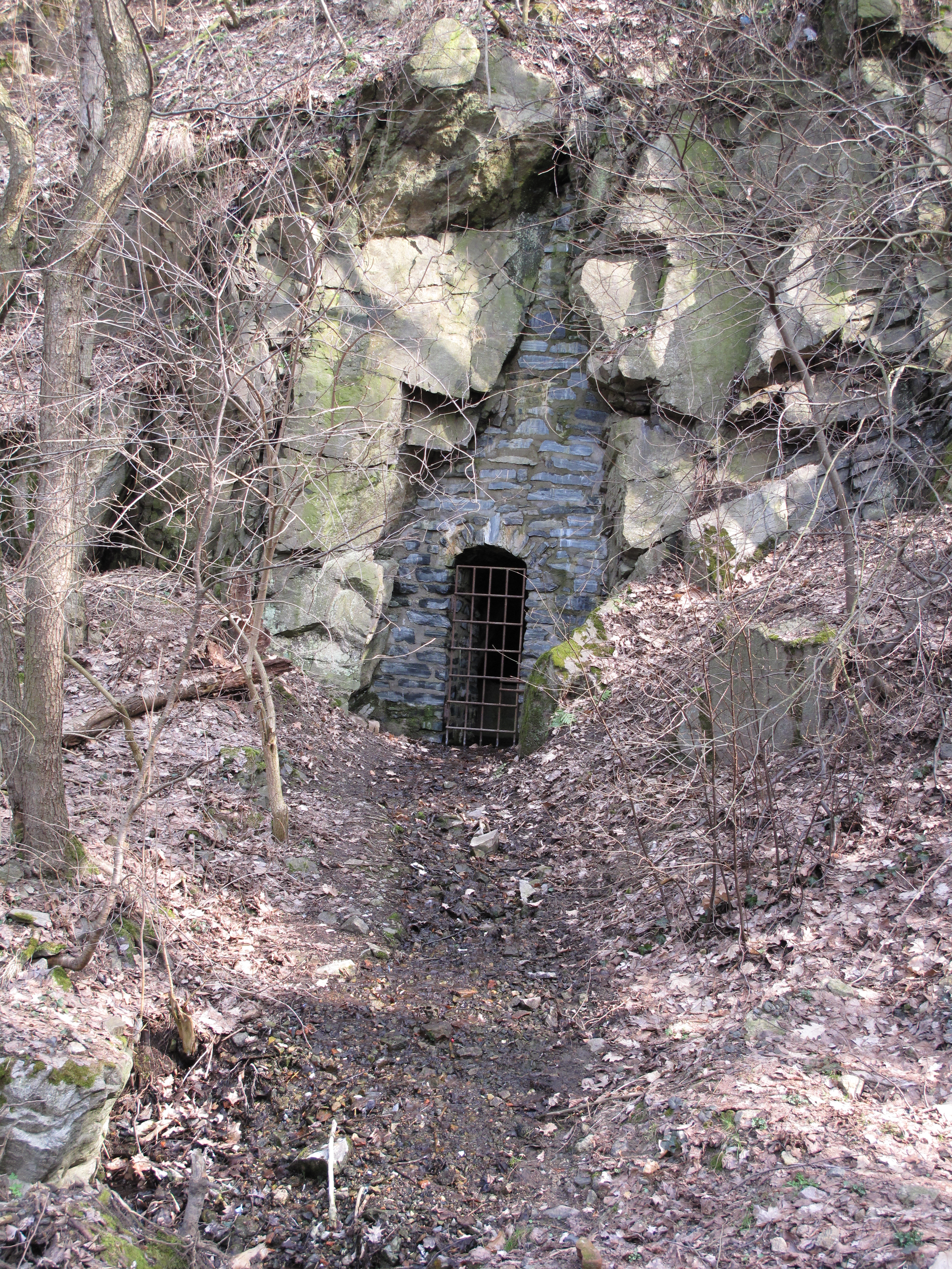 Entrance to the Poličany gallery (Denemark gallery) under Poličany village, Kutná Hora District, Czech Republic. Now closed, active (not continuously) from the end of the 14. century till the end of th 18 century. About 100 m long.